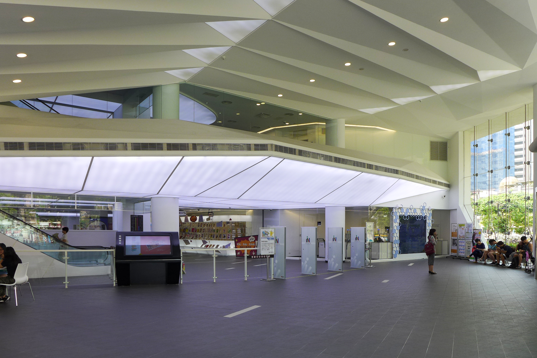 New Taipei City Main Library